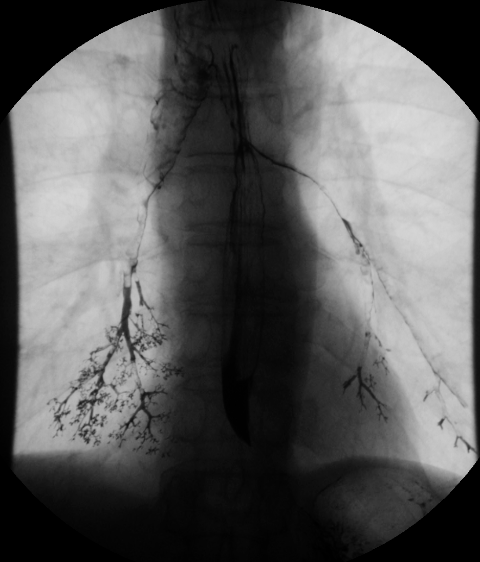 Barium in the lungs as seen on a fluoroscopic exam